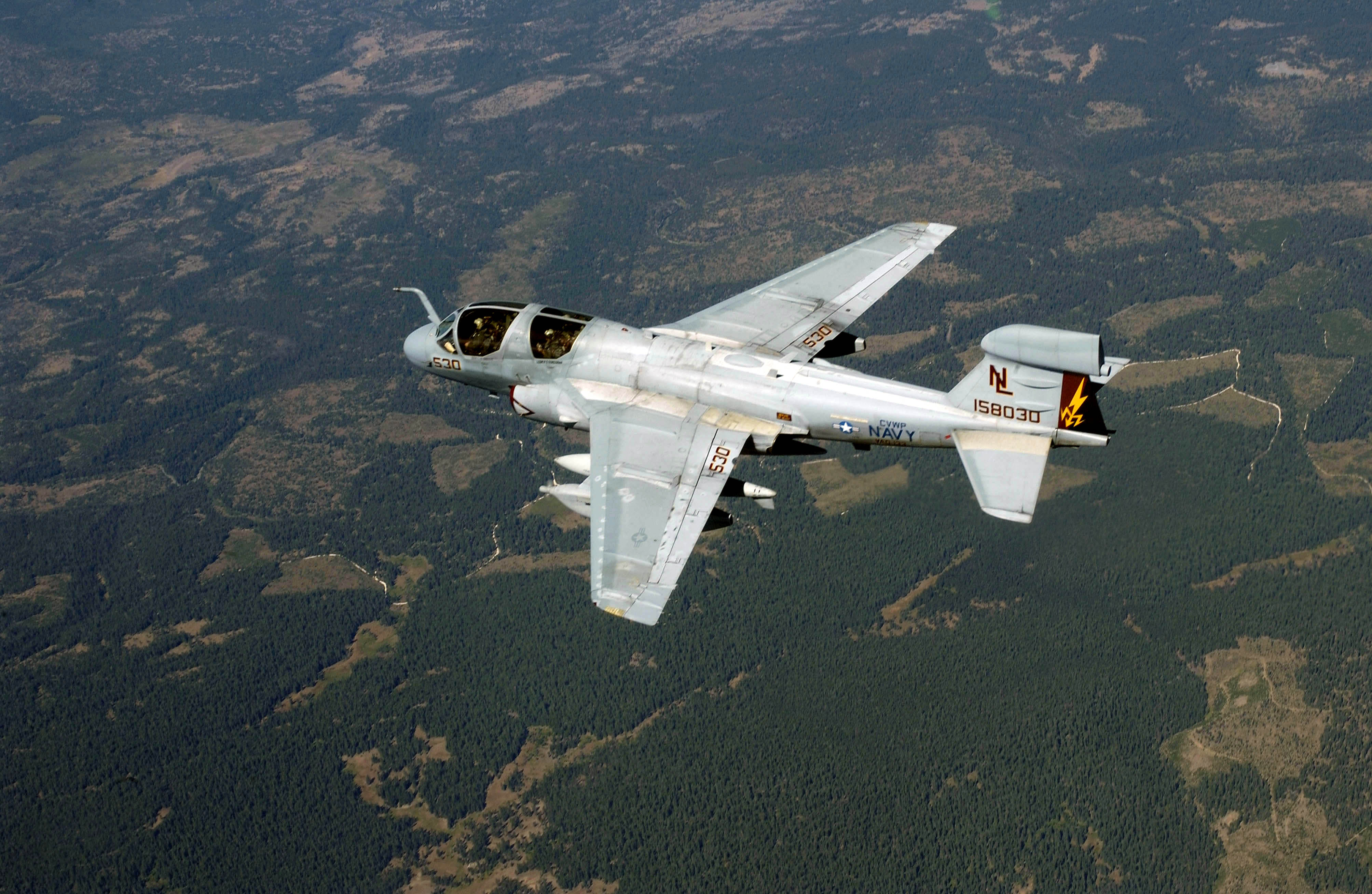 Kingsley Field, Ore. (Aug. 10, 2005) – An EA-6B Prowler, assigned to the “Wizards” of Electronic Warfare Squadron One Three Three (VAQ-133), flies a mission in support of exercise Sentry Eagle. Sentry Eagle is a biannual, two-day exercise that emphasizes tactics for defending friendly airspace and assets from a variety of adversaries as well as exposing participants to multi-service military forces. Note that the aircraft wears the tail code "NL", assigned to the Commander VAQ-Wings, Pacific at NAS Whidbey Island. From 1956 to 1995 this was the tail code of Carrier Air Wing 15 (CVW-15).